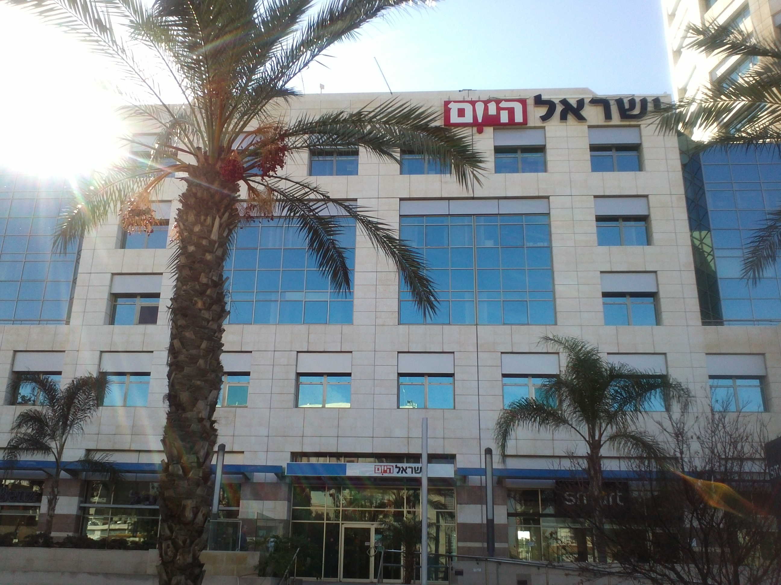 Israel_Hayom_building, Tel Aviv